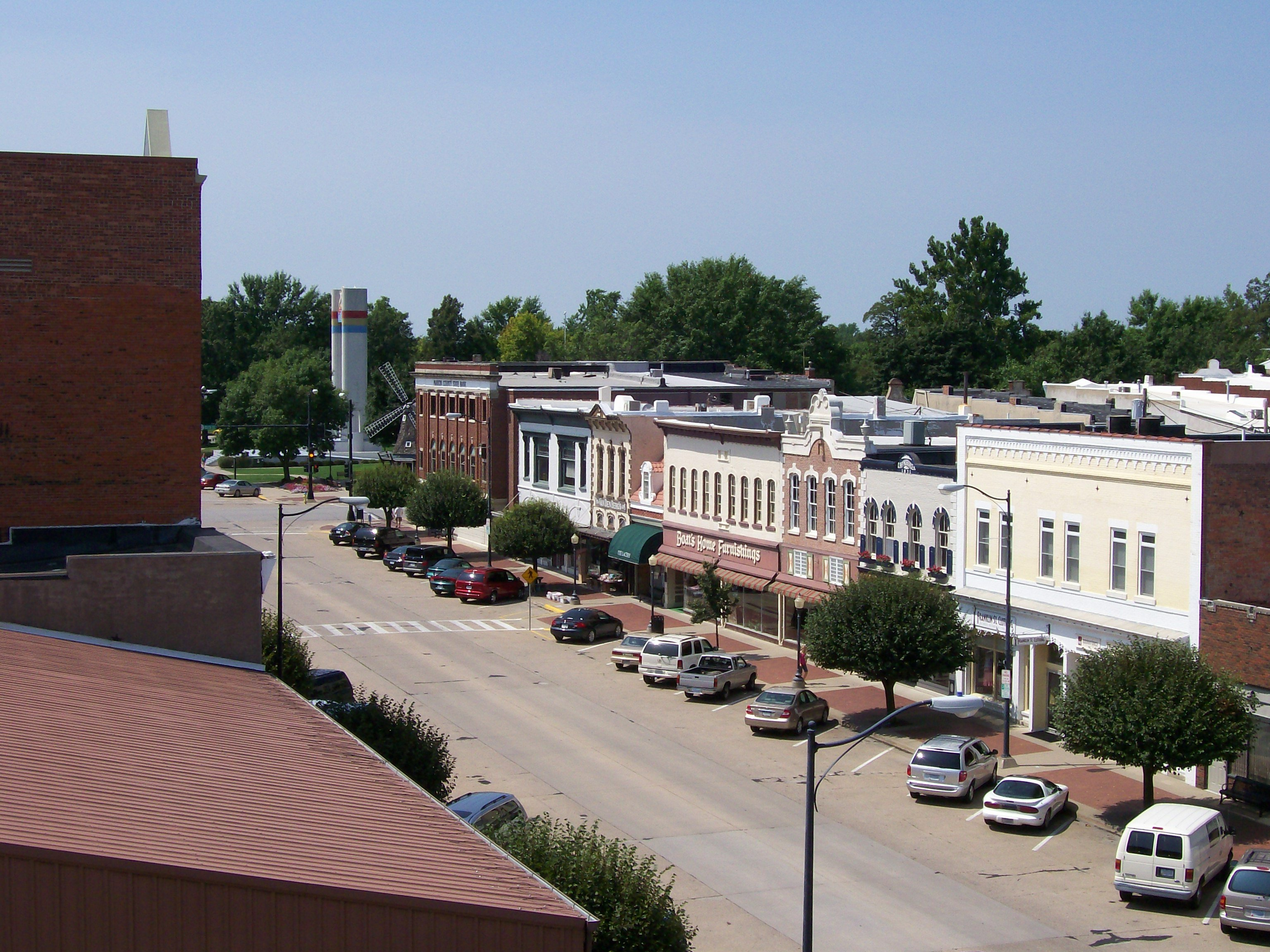 I took this picture with a Kodak EasyShareC703 on August 13, 2007. It is a picture of part of Franklin St. in in Pella. The picture is facing generally west and was taken from the fifth story of the Vermeer Mill. Notable in the background are the Tulip Toren(tall statute) and Information Windmill located in Pella's Central Park.